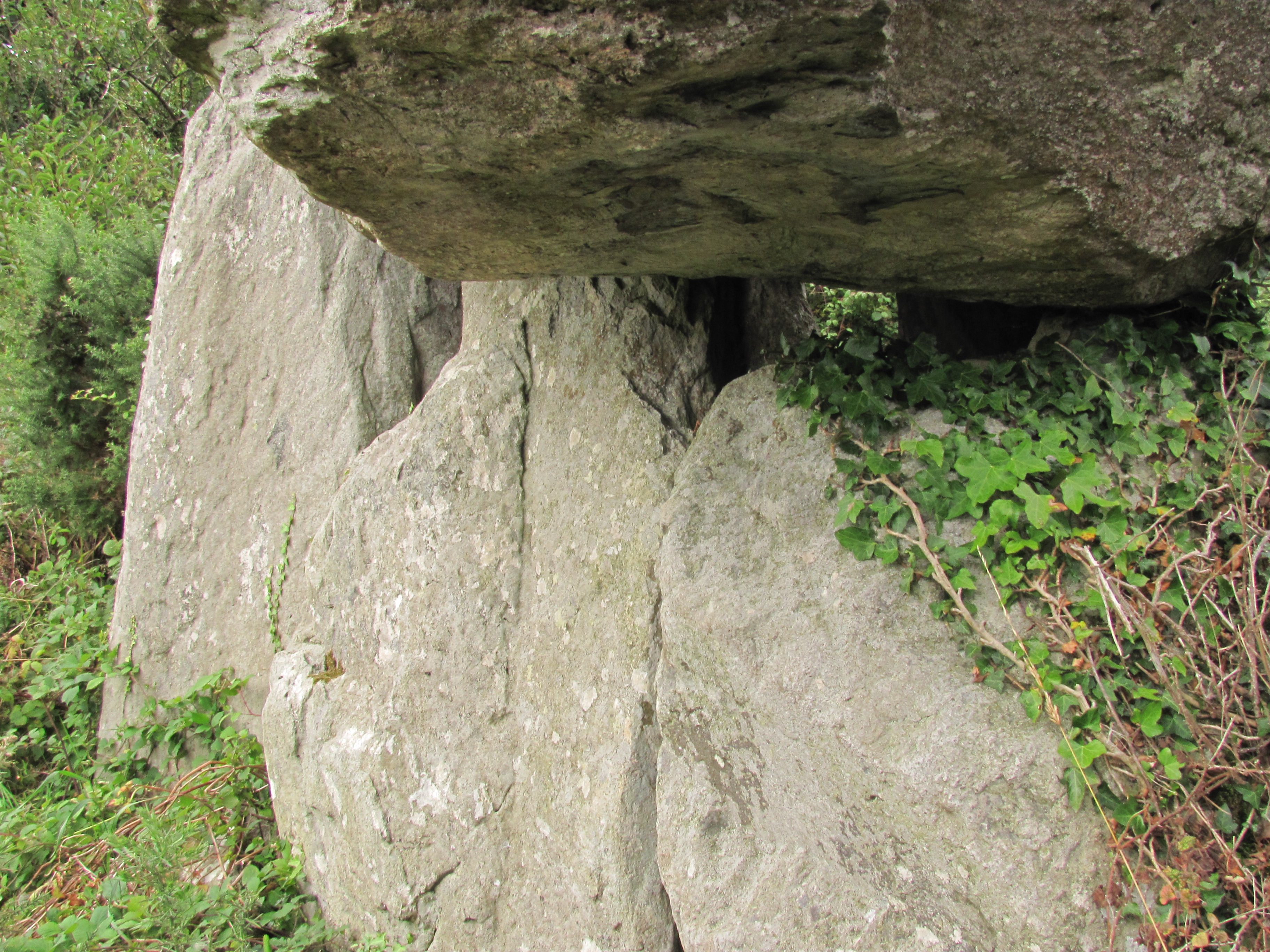 Knockeens Dolmen